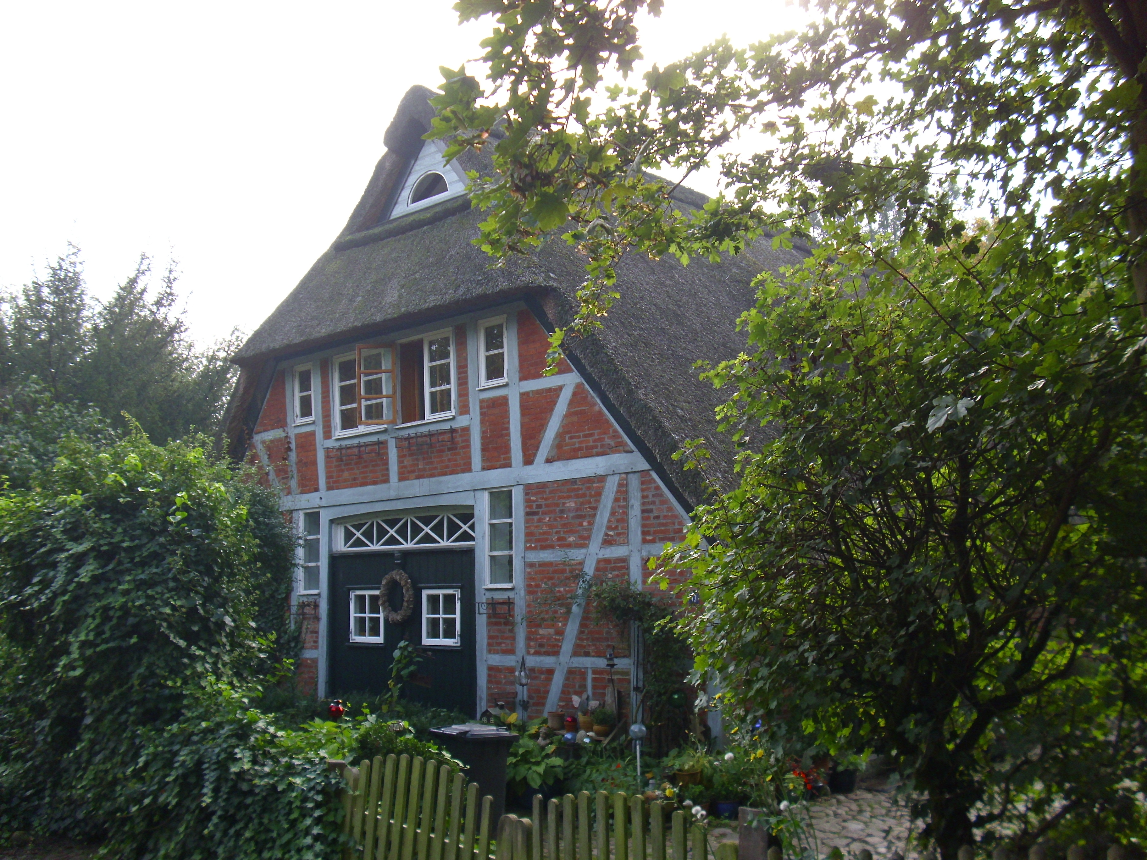 Grützmühlenweg 13 This is a photograph of an architectural monument.